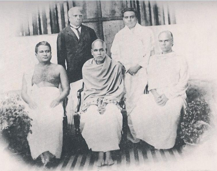 Kumaran Asan (died 1924) with Sree Narayana Guru